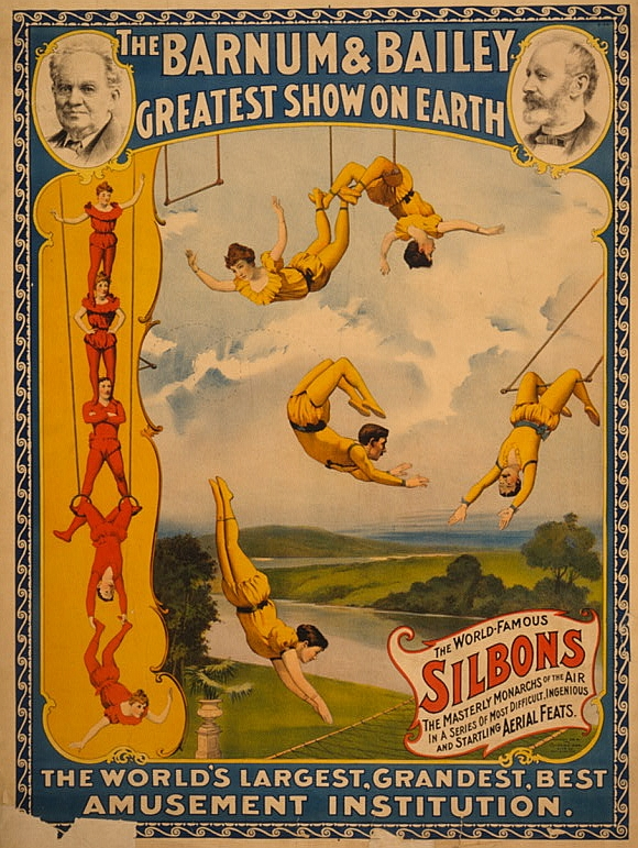 Barnum & Bailey circus poster, 1896. "The Barnum & Bailey greatest show on earth. The world's largest, grandest, best amusement institution. The world-famous Silbons, the masterly monarchs of the air, in a series of most difficult, ingenious and startling aerial feats."